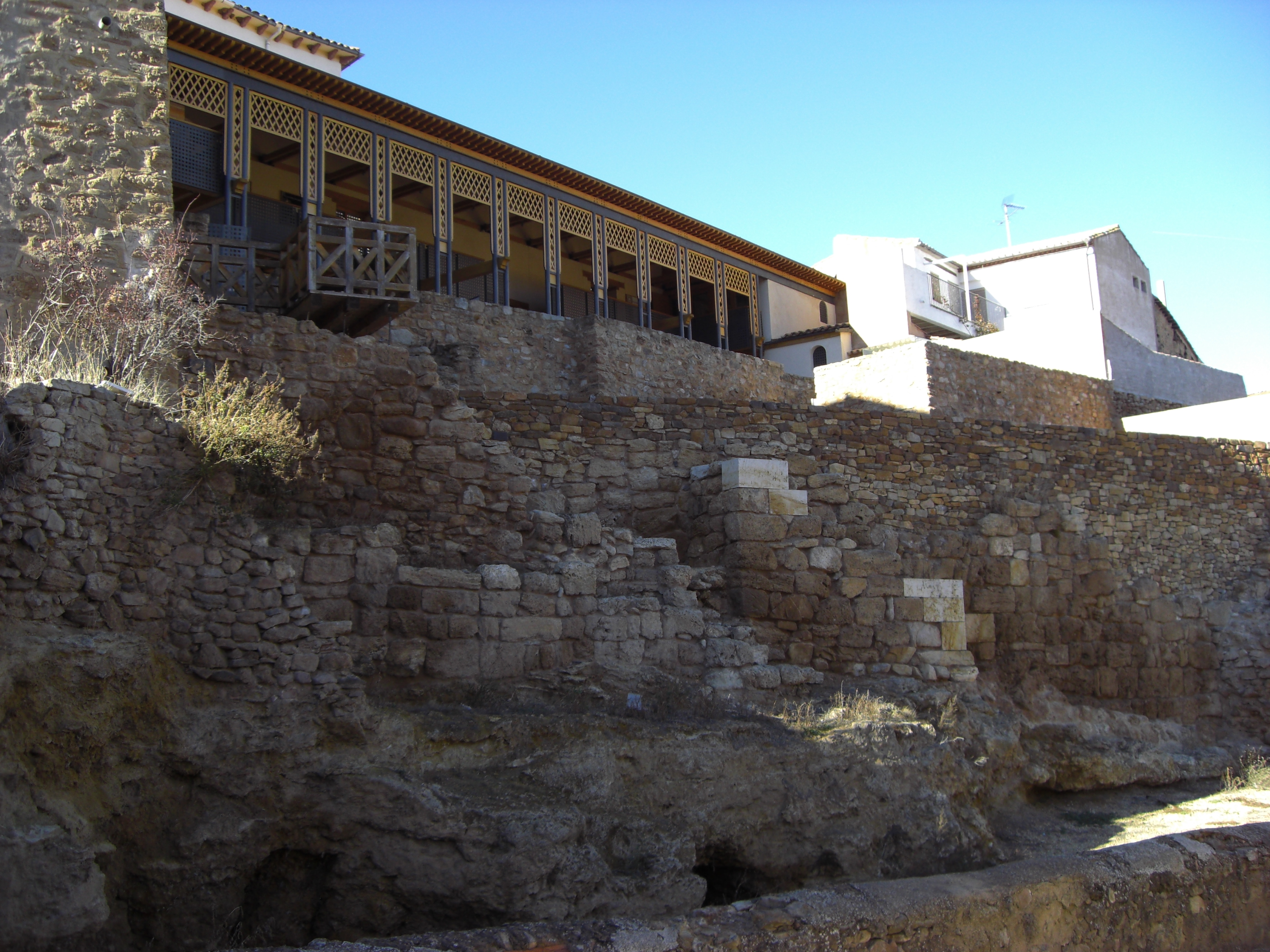 Ágreda, Soria, Spain